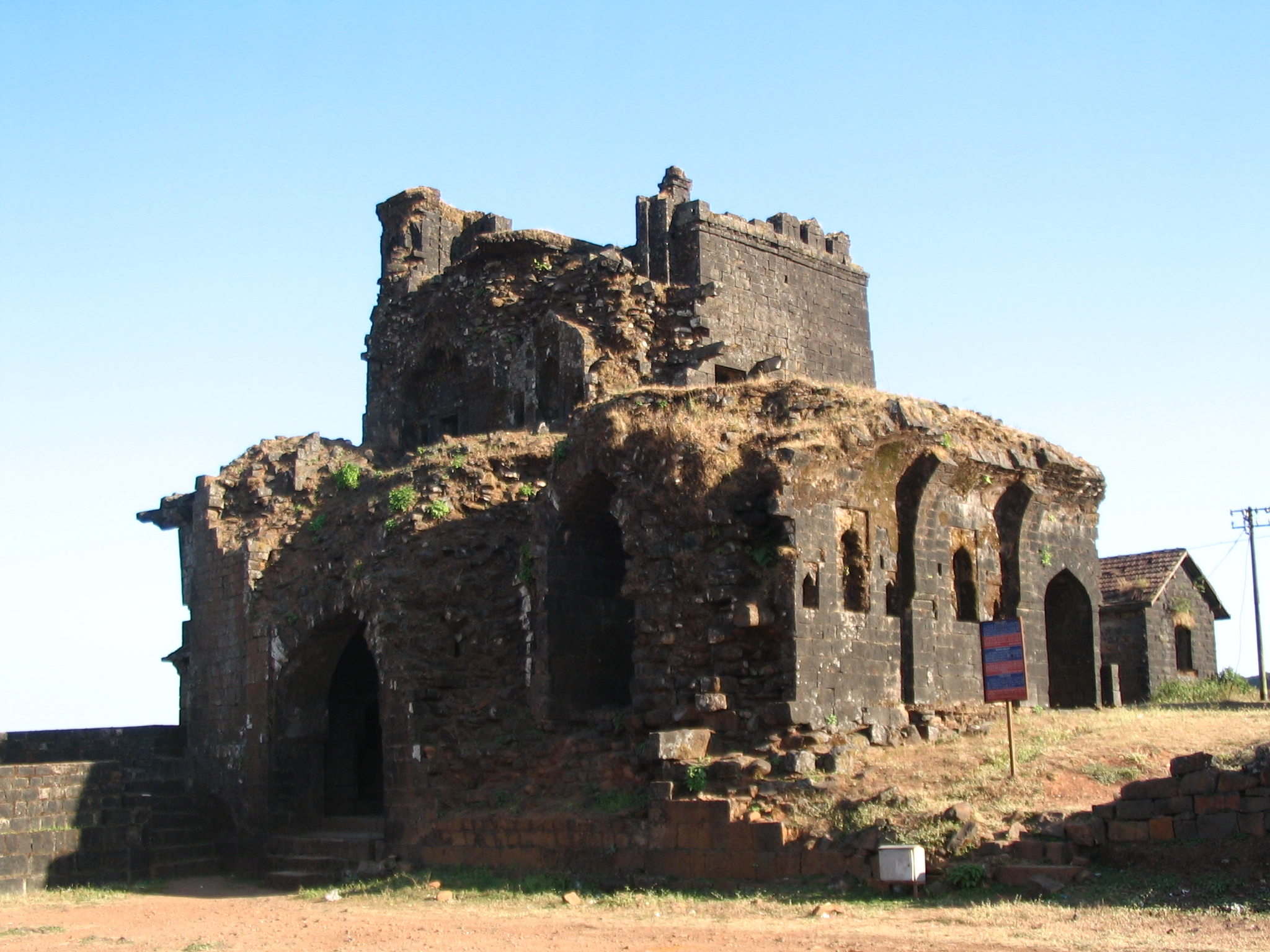 The courtesan's palace, Panhala fort, Maharashtra, India